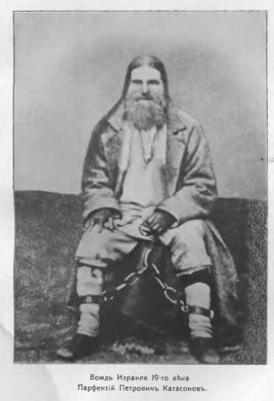 Perfil Katanosov